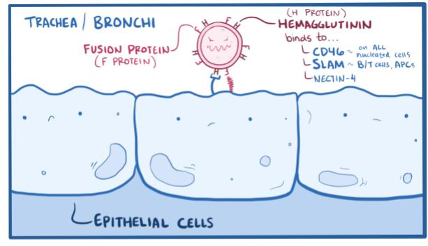 Image 5 of measles video